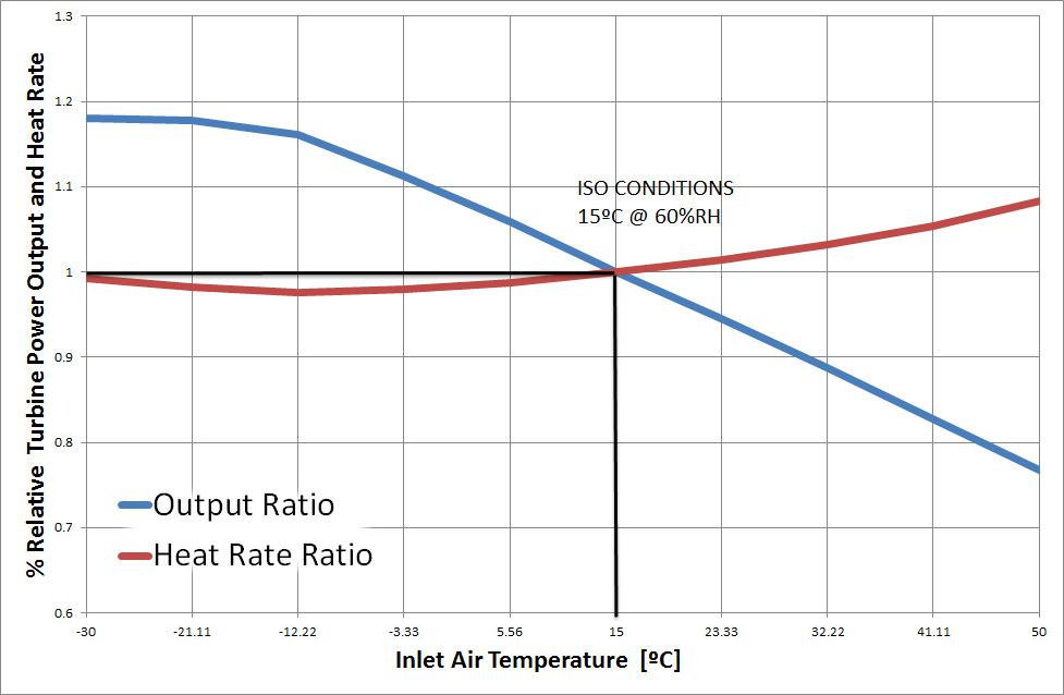 Variation of Gas Turbine power output with ambient temperature, and showing different turbine inlet air cooling technologies.